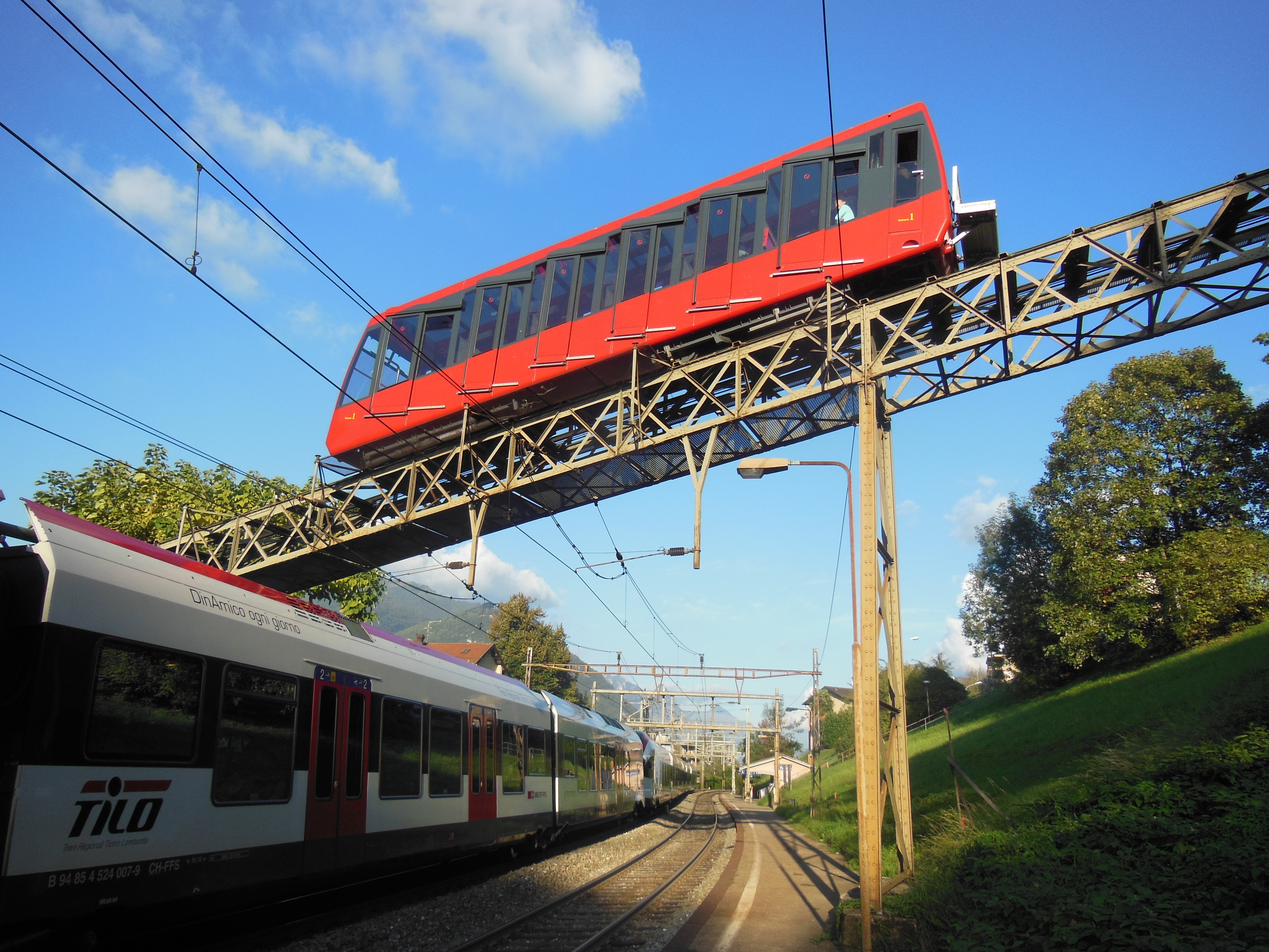 Lugano-Paradiso railway station in Switzerland, with a TiLo FLIRT train in the station, and a car of the Monte San Salvatore funicular passing over the bridge. For more information, see wikipedia articles Lugano-Paradiso railway station and Monte San Salvatore funicular.